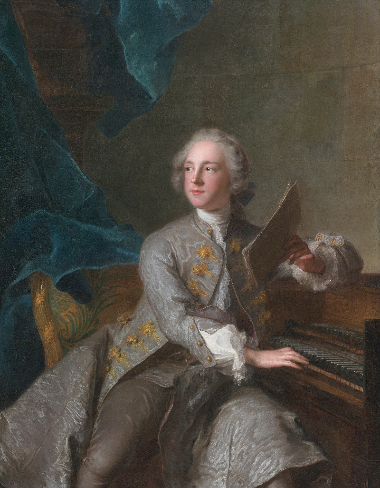 Francis Greville, Baron Brooke, later 1st Earl of Warwick (1719-1773) oil on canvas 137.6 x 107.2 cm signed r.: NATTIER...1741 (on the harpsichord)